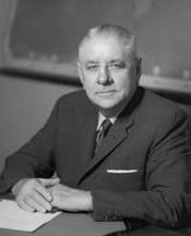 Senator Herbert S. Walters (D-TN)